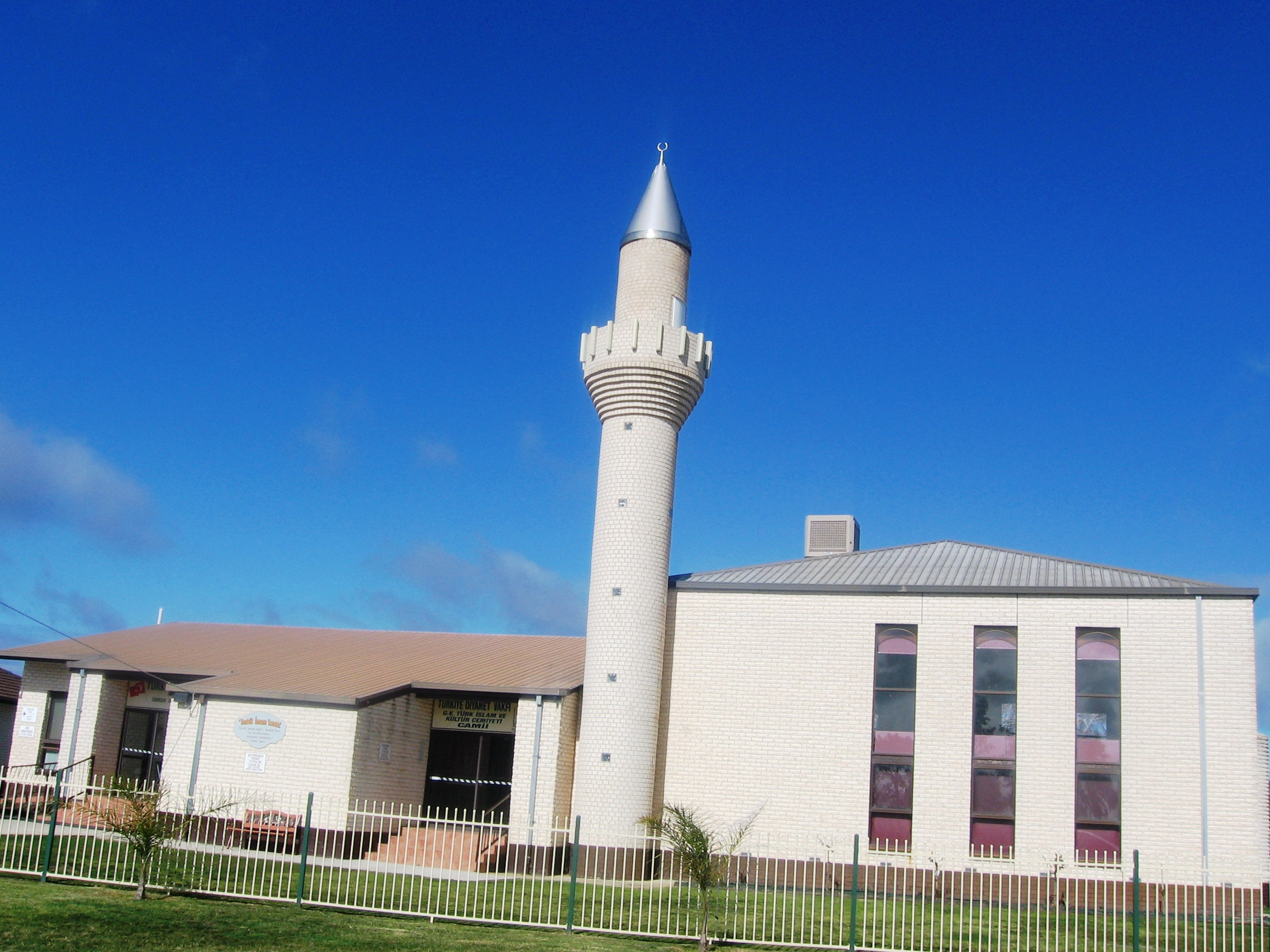 Mosque at Mooroopna, Victoria